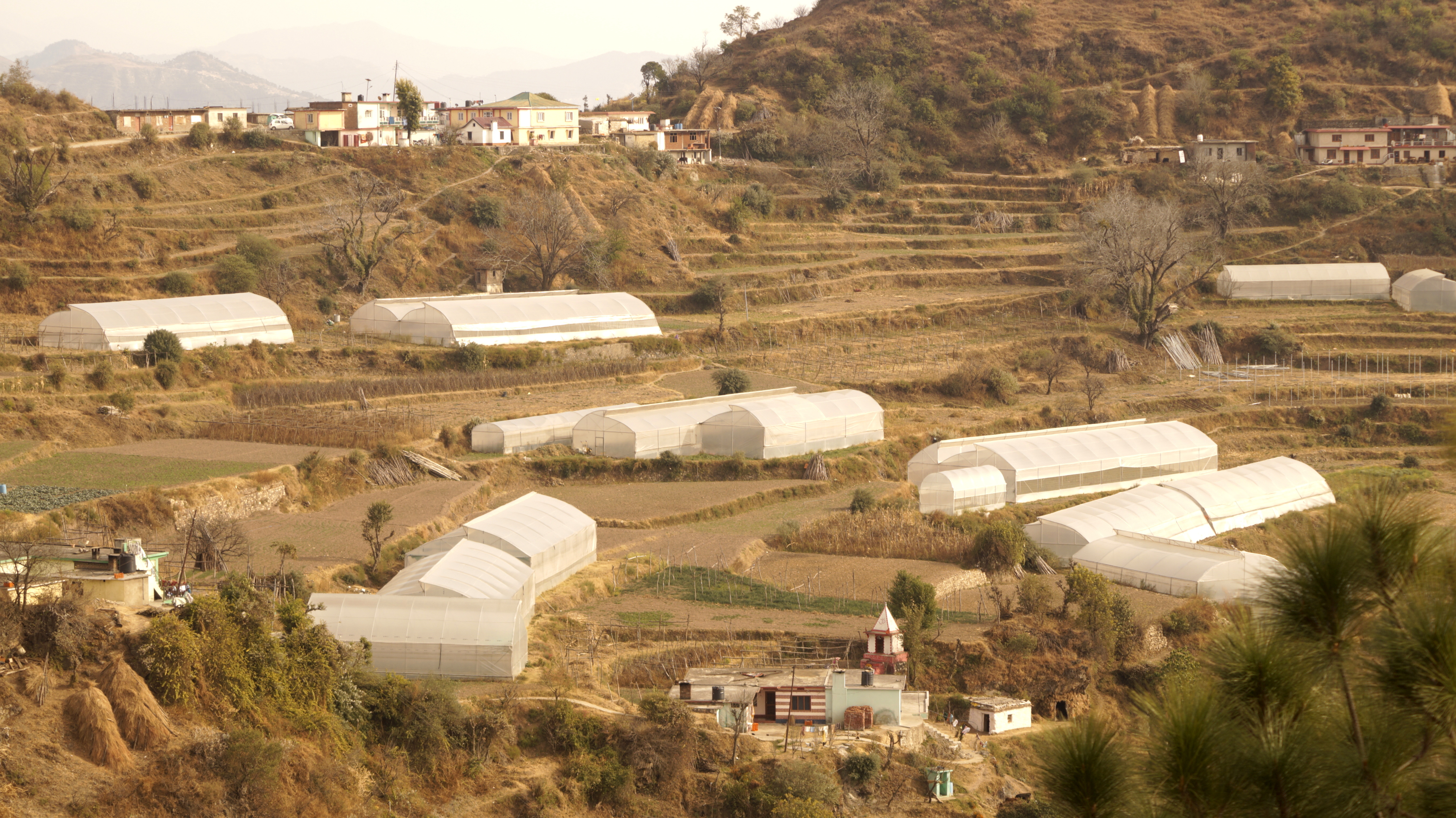 Polyhouse cultivation,village Dhaar,district Solan, Himachal Pradesh